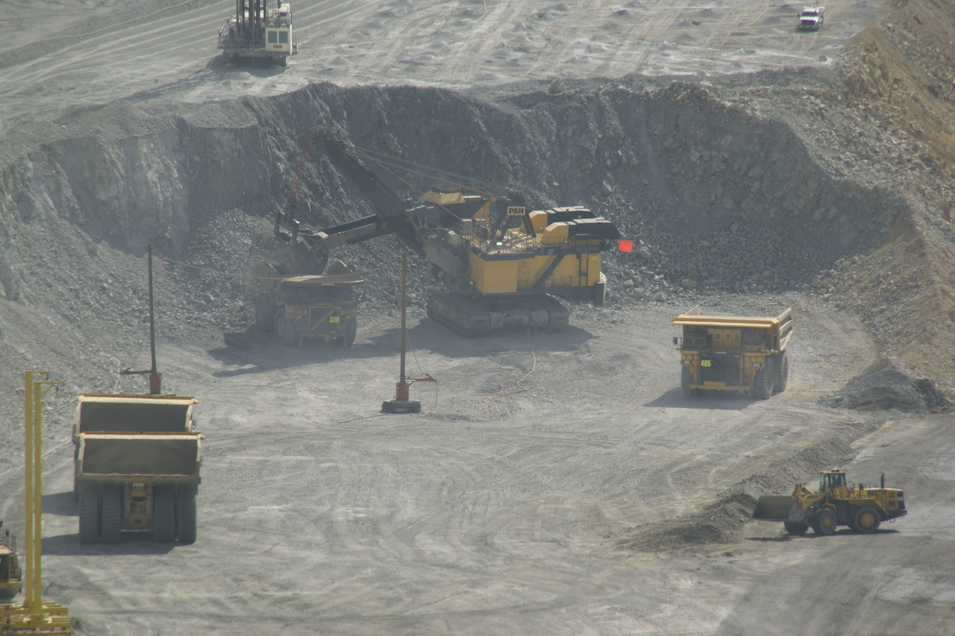 Trucks picking up ore at Bingham Canyon Mine (Kennecott Copper Mine), Utah, USA